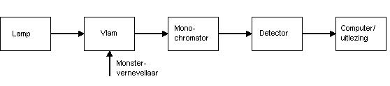 Description Blokschema van AAS Date16 September 2006SourceOwn workAuthorChemanalystPermission (Reusing this file) Vrijgegeven door Chemanalyst Other versions geen Blokschema van AAS